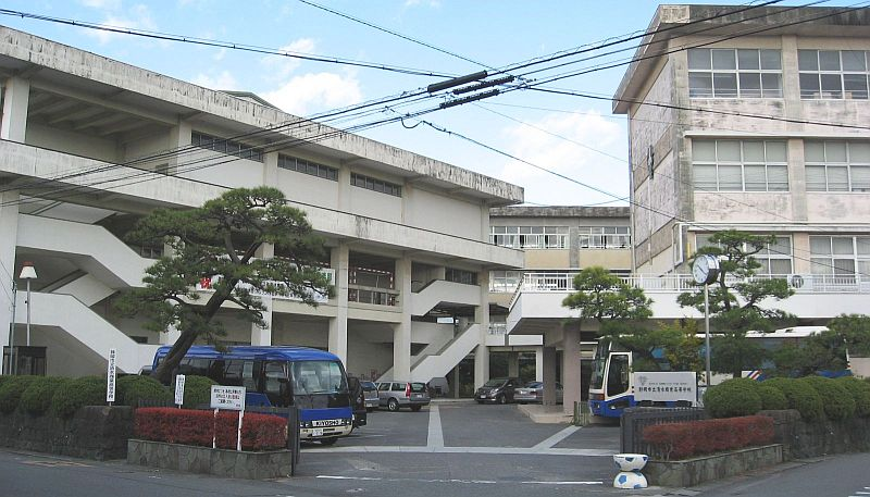 Shimizu Commercial High School, Shizuoka, Japan